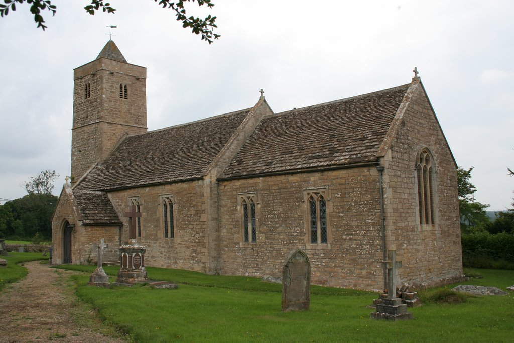 St Leonard's parish church, Farleigh Hungerford, Somerset, seen from the southeast